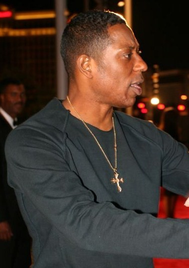 Orlando Jones 7UP guy Drumline in a number of television shows